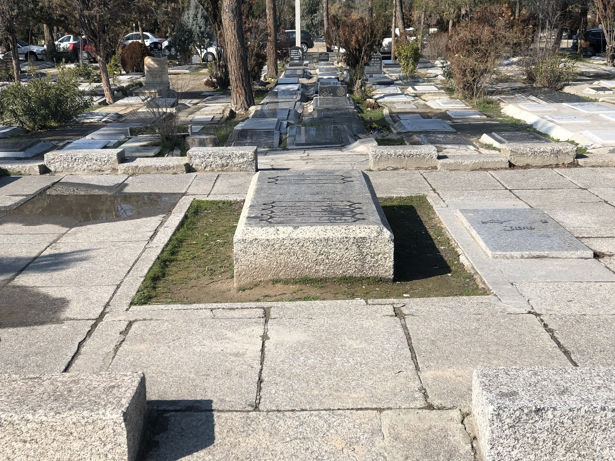 Sadegh Rezazadeh tomb